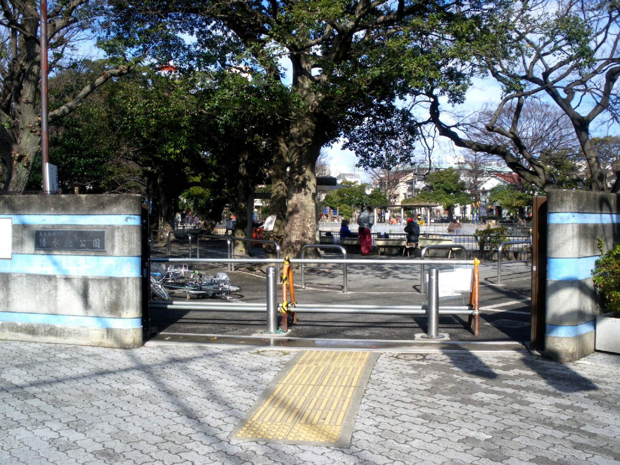 A photo of an entrance of Shimizuike park,Megurohoncho,Meguro-ku,Tokyo,Japan.